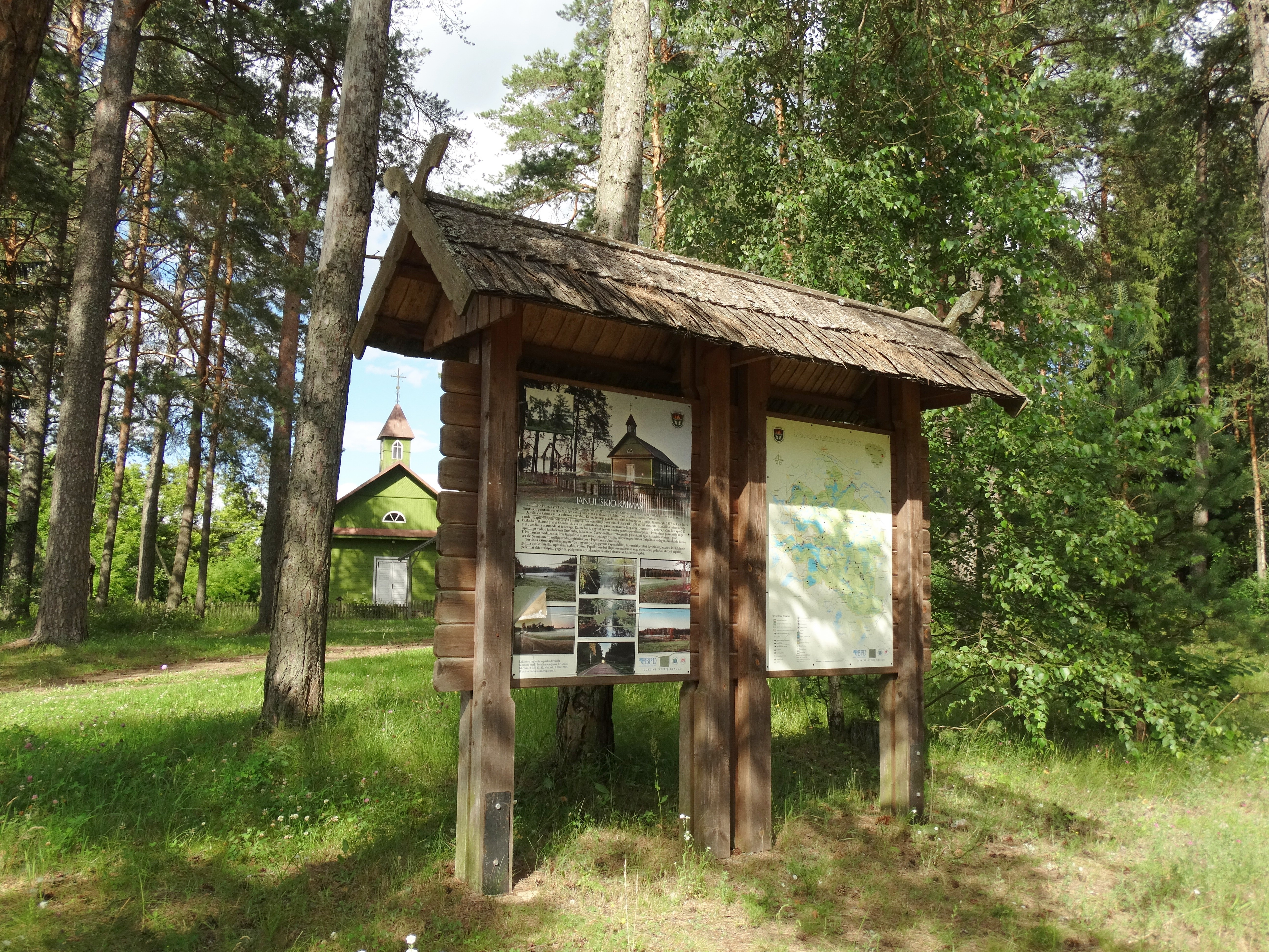 Januliškis, Švenčionys District, Lithuania